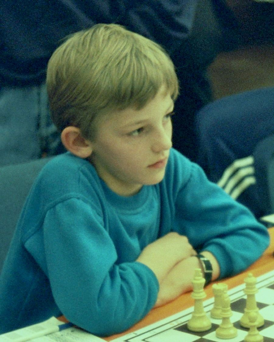 Alexander Grischuk, World Youth Chess Championship (under 10) 1992 at Duisburg, Photographer Gerhard Hund.